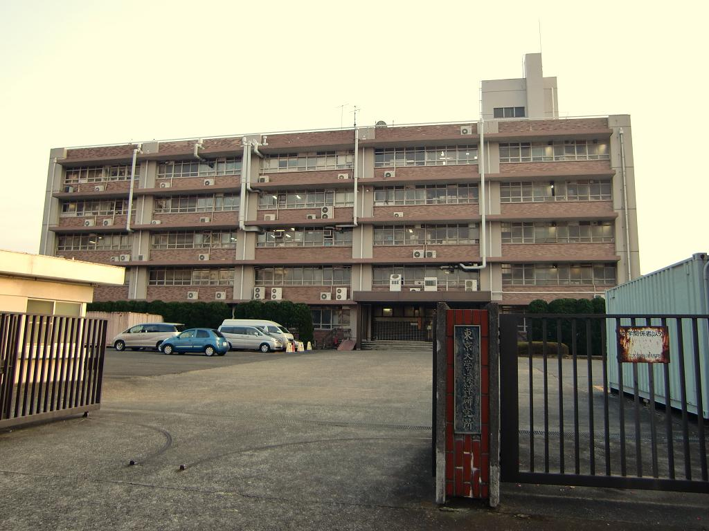 The former building of Ocean Research Institute, the University of Tokyo in Nakano Campus, Tokyo.